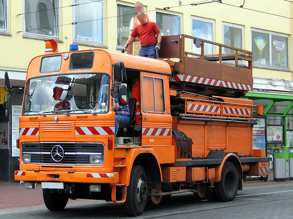 Mercedes-Benz Kubische Kabine